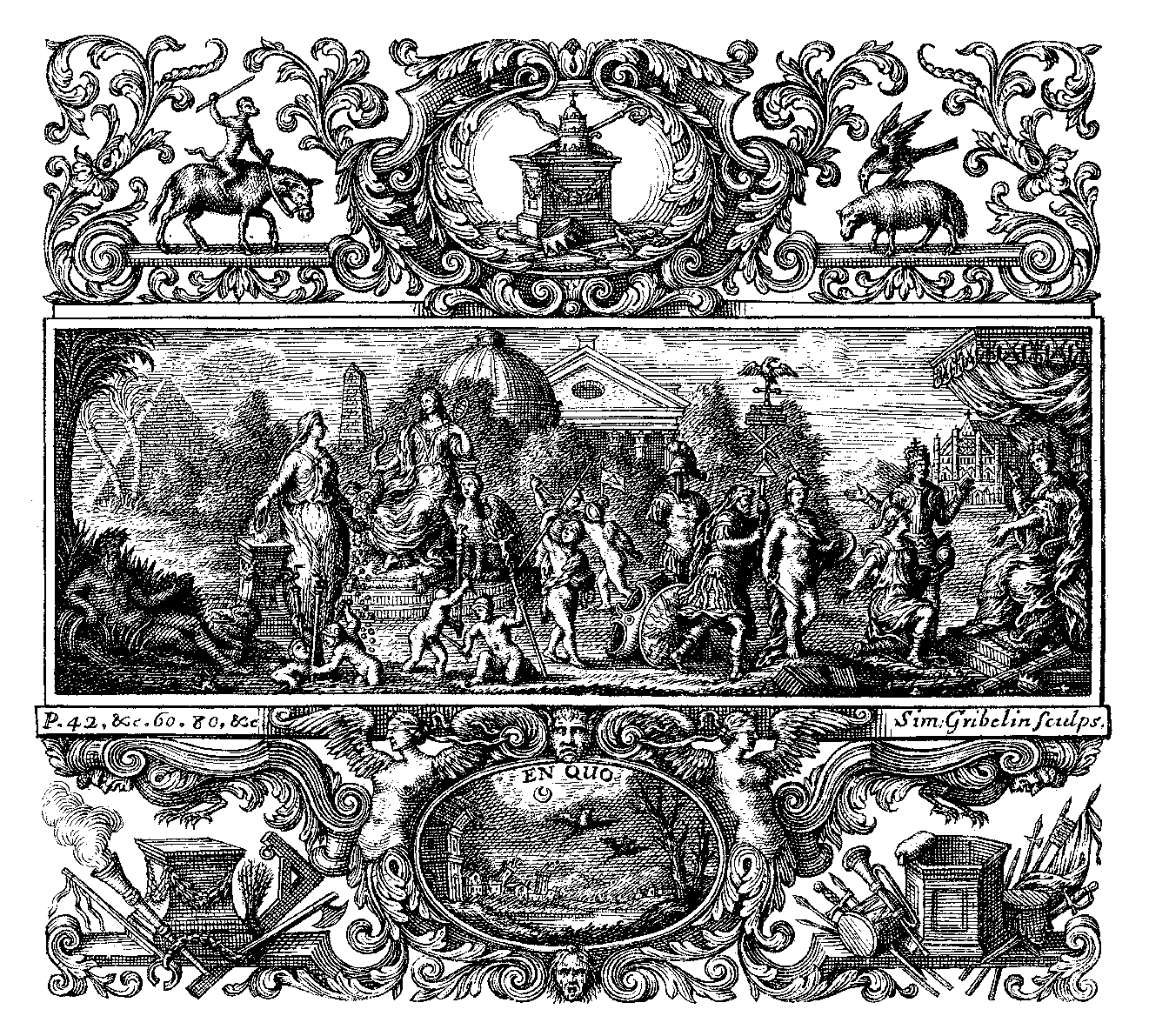 The emblem engraved for the frontispiece of the third volume of Lord Shaftesbury's Characteristicks of Men, Manners, Opinions, Times according to the author's instructions.